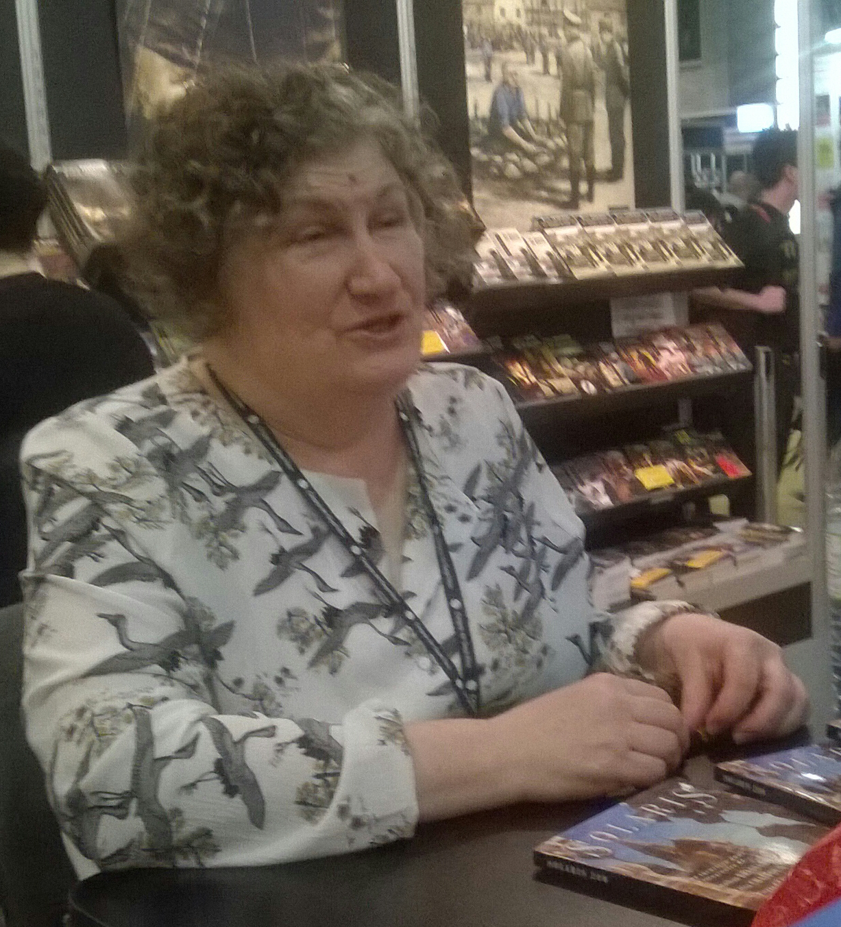 Francine Pelletier photographed photographed in Montréal , Québec, Canada at the Salon du livre de Montréal 2018.